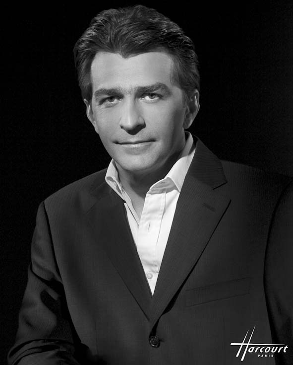 Yannick Alléno photographed by Studio Harcourt Paris